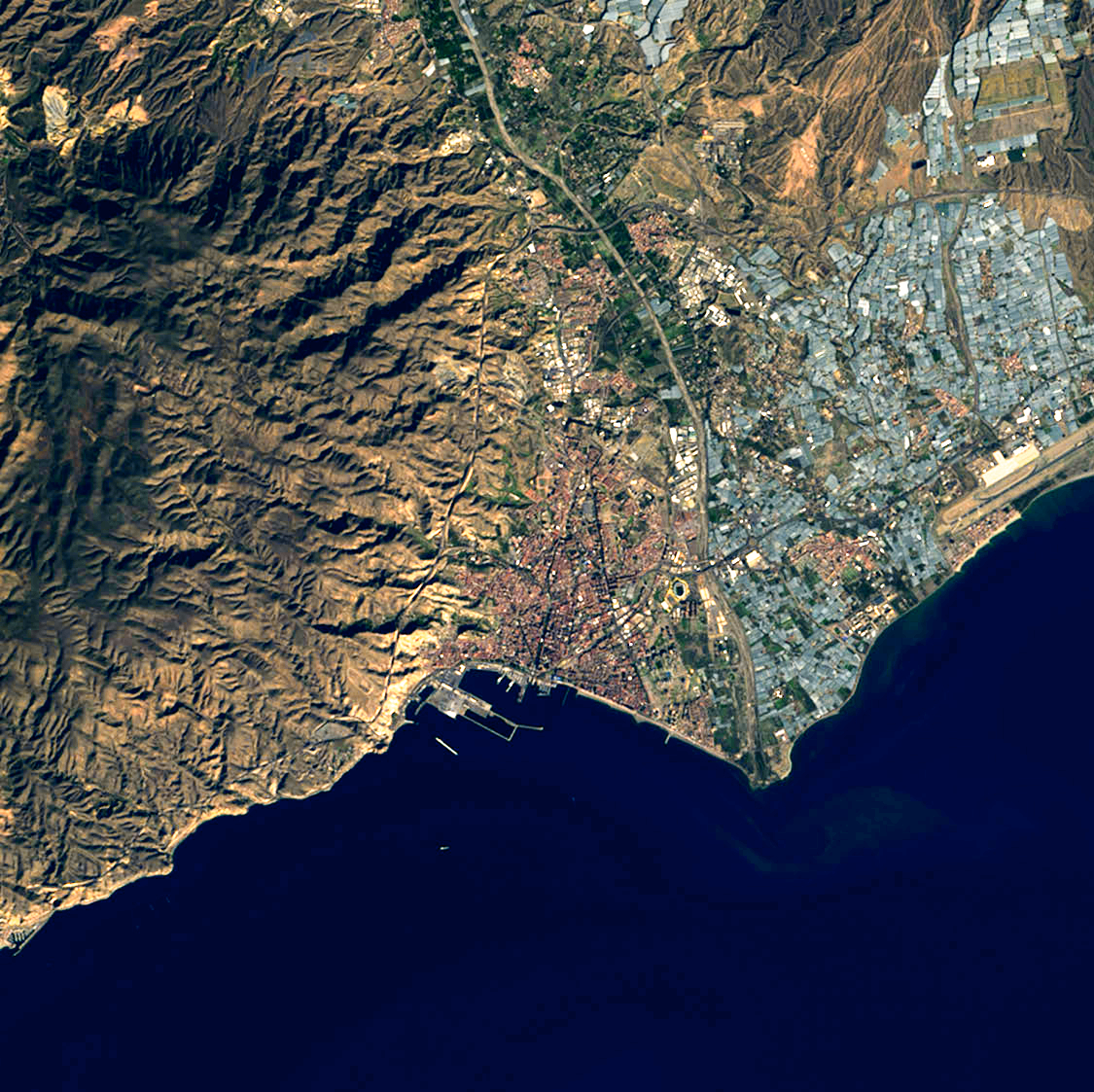 Observational Data courtesy of Landsat 8 satellite (Bands: 2, 3, 4, 8) & USGS. Data processed by Paul Quast. Data Specifications: Coordinates: 37.5634, -3.0848. Acquired: 4-Jan-2017 (Entity ID: LC82000342016360LGN00, Path: 200, Row: 34). Features of interest: Almería Greenhouses (26,000 hectares) [Bottom-Right]. Parque Nacional de Sierra Nevada [Bottom-Left]. Parque Natural Sierra de Baza [Middle]. Granada [Bottom-Left].